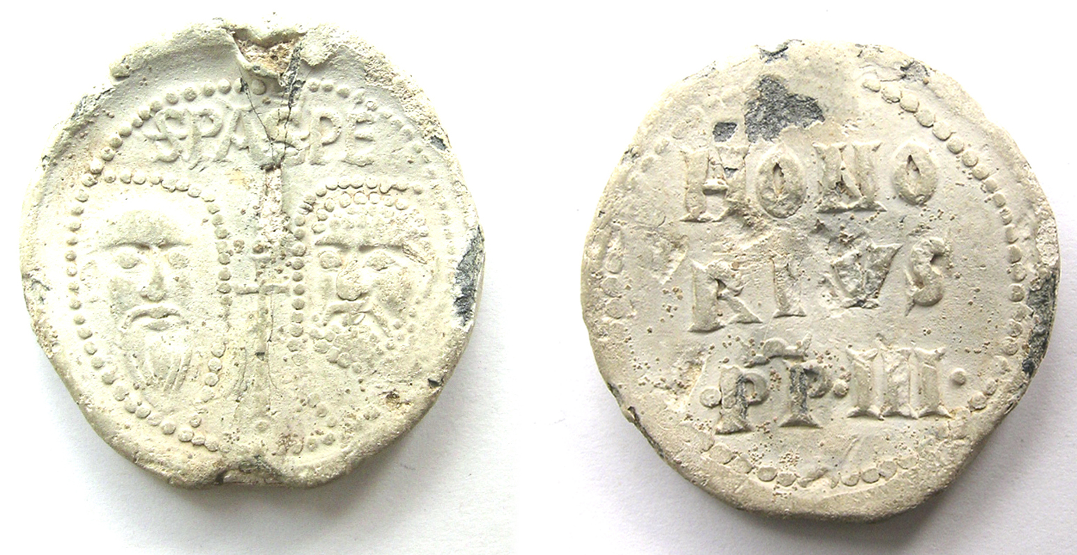 Cast lead-alloy papal bulla of Honorius III dating from the Medieval period (AD1216-1227). The bulla displays the faces of St Paul and St Peter on the obverse, with the inscription 'SPASPE' above their heads and a cross between them. The reverse reads HONORIVS PP III, indicating which pope issued the bulla.